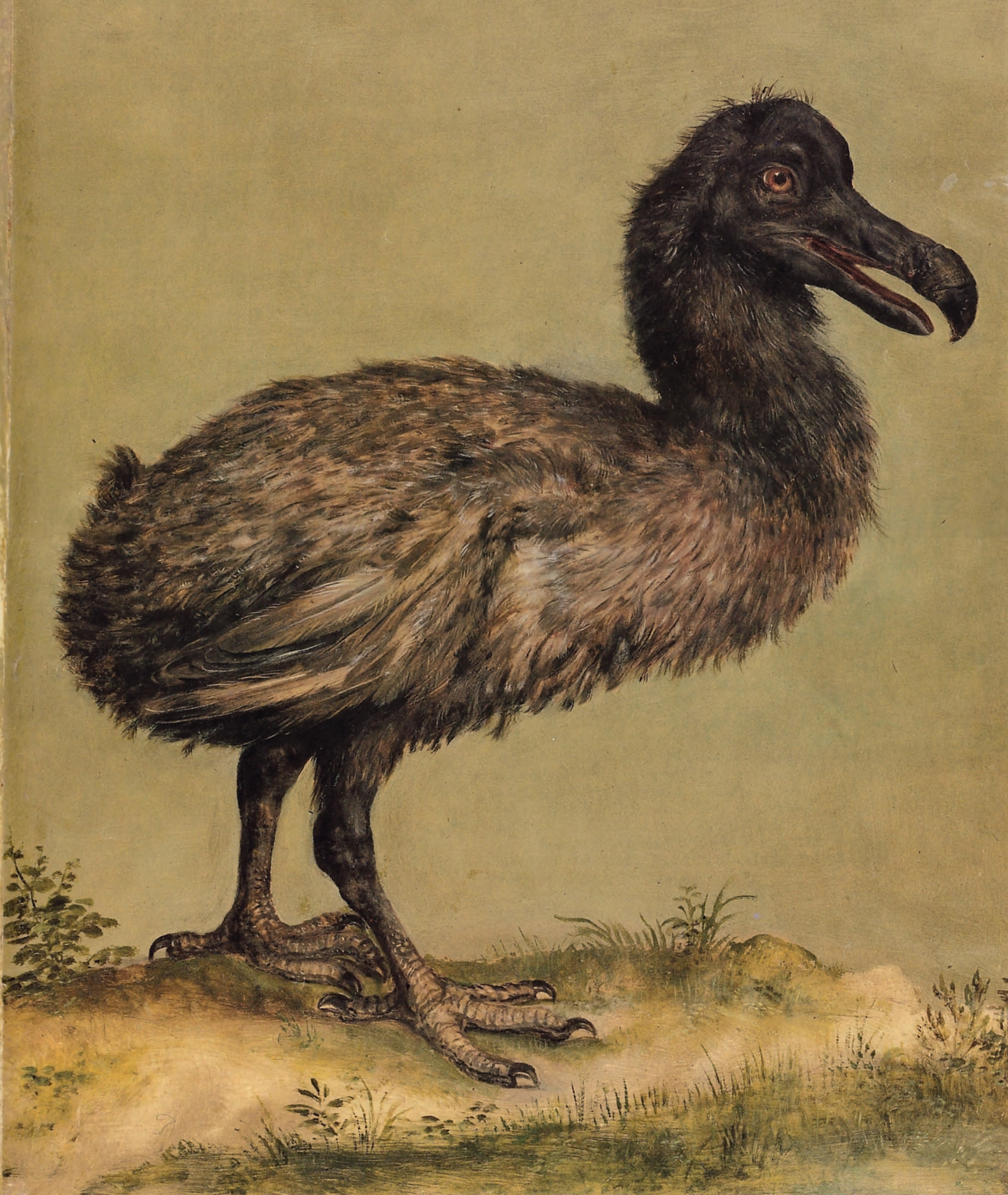 Illustration of a dodo in the menagerie of Emperor Rudolph II at Prague